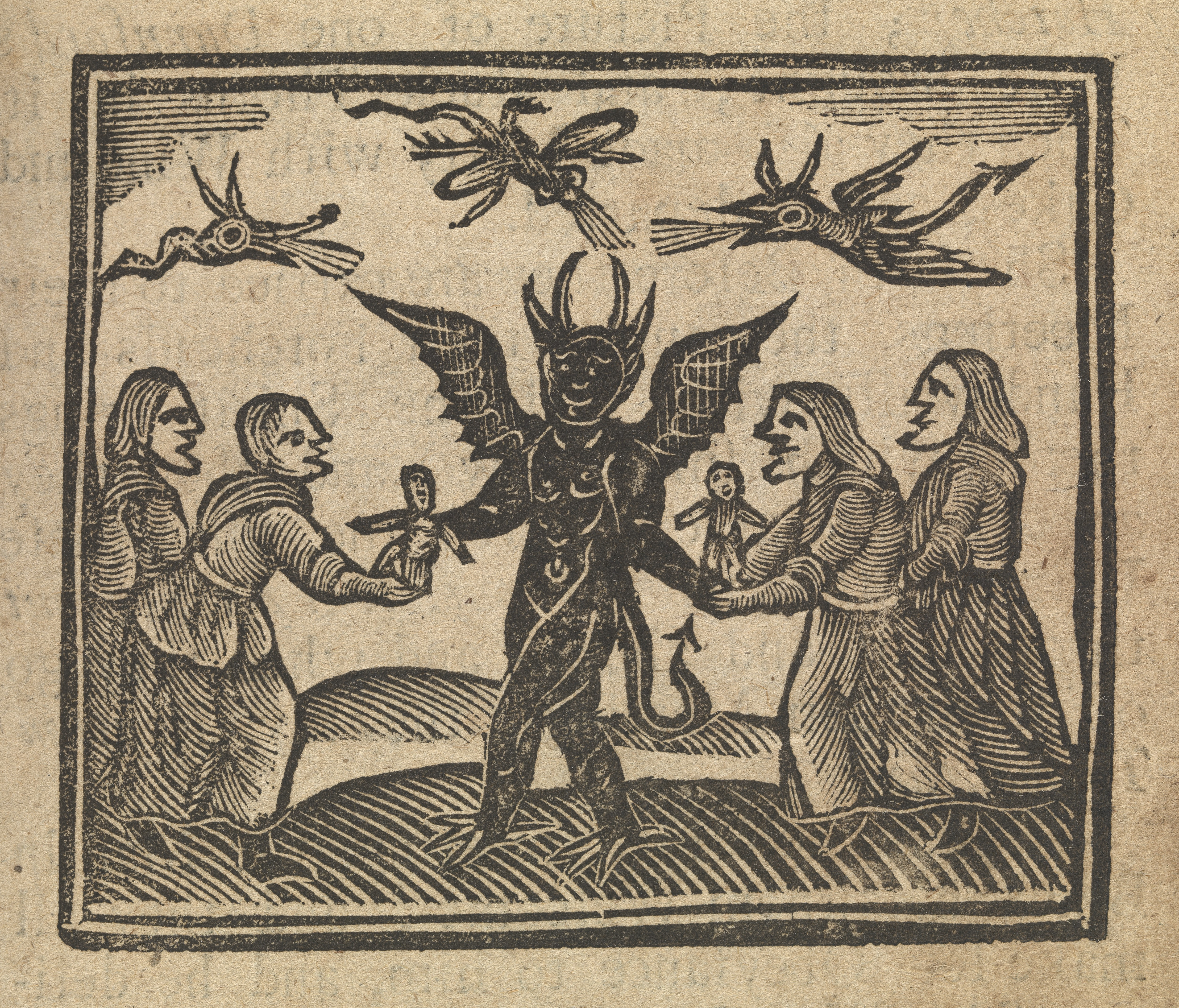 Wax dolls being given to the devil. Medical Photographic Library